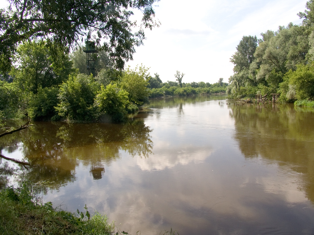 junction of Bug & Muhavets